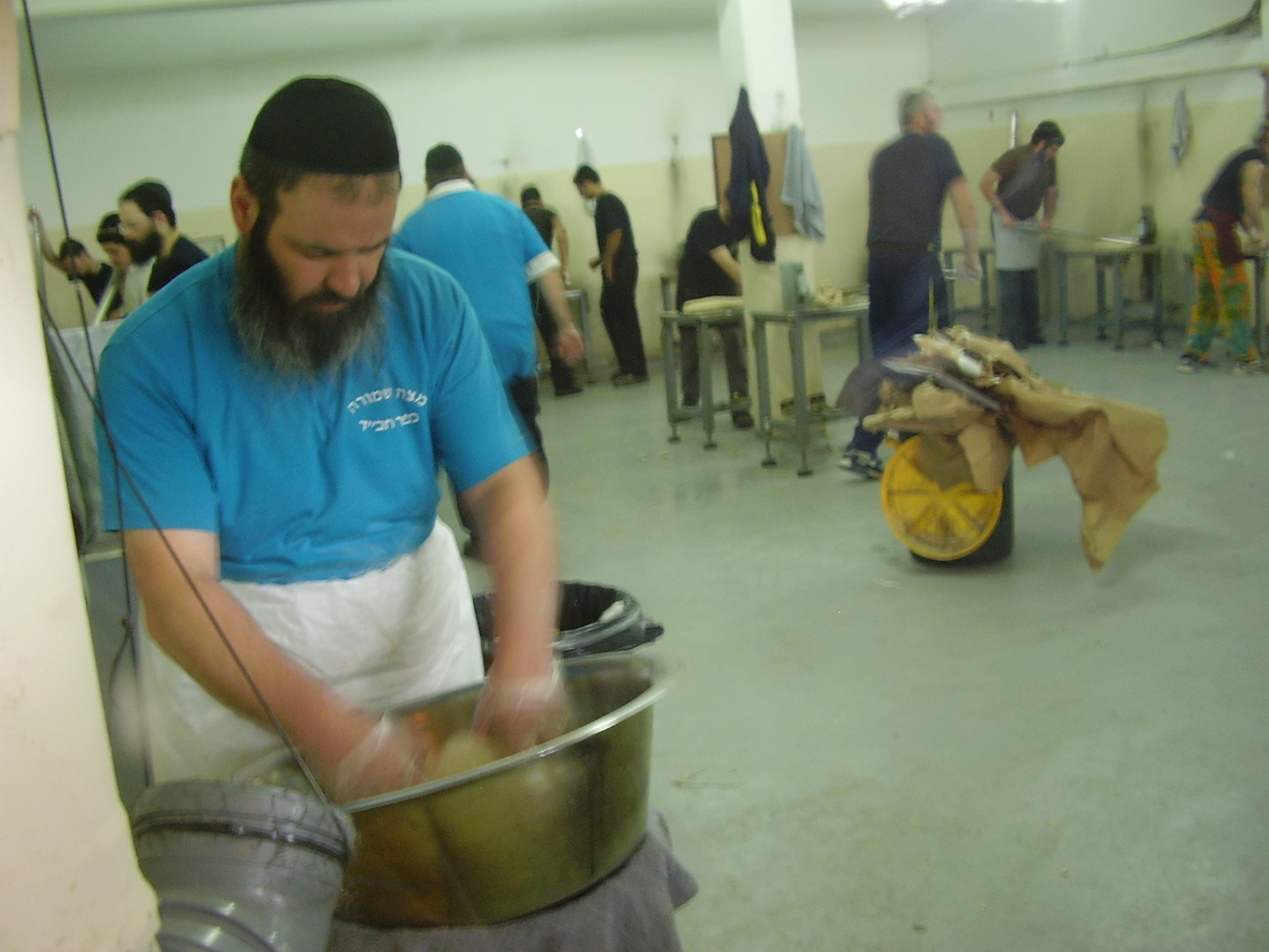 Making handmade Mazot in Kfar Habad